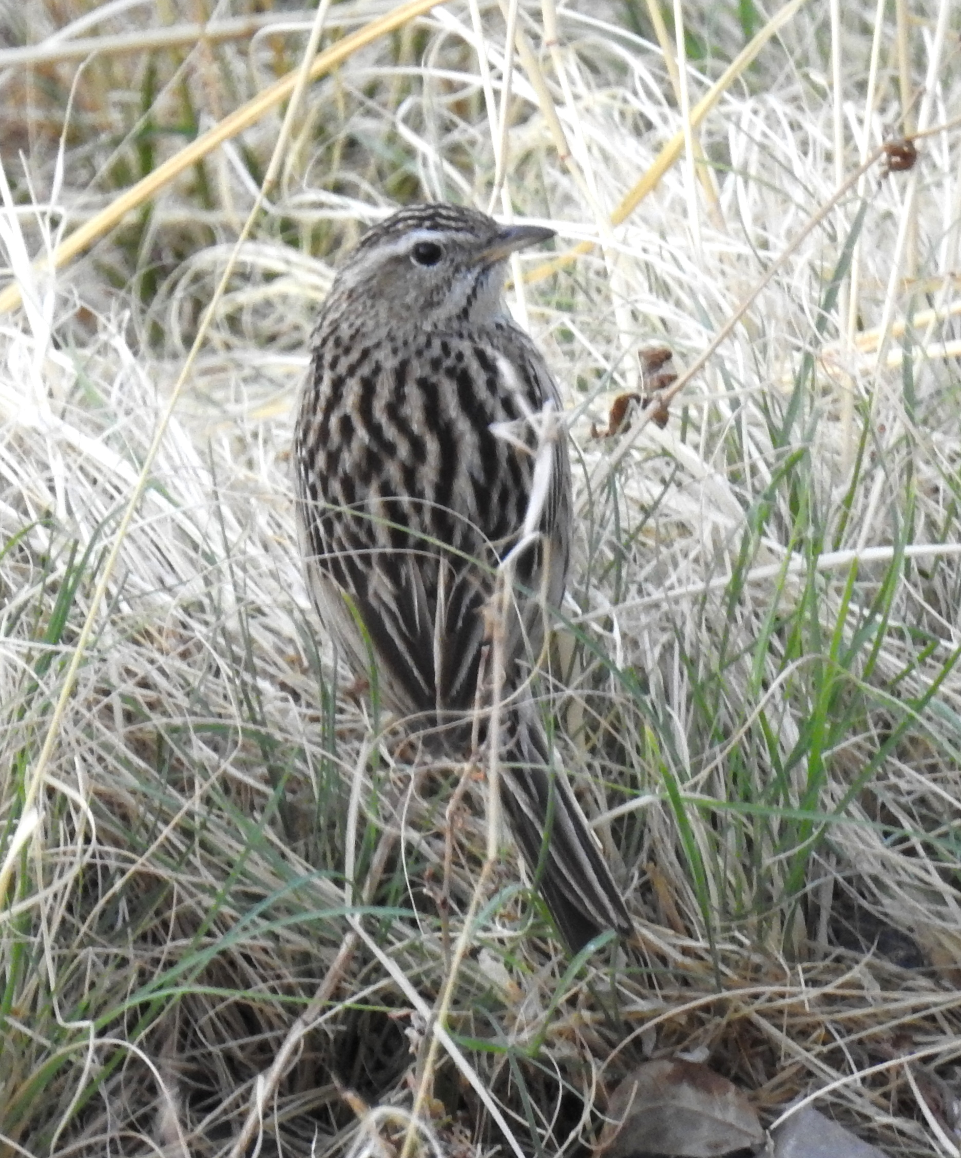 Photographed by Dr. Raju Kasambe in Nainital district, Uttarakhand, India.